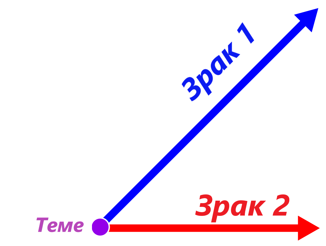 Two rays and one vertex, a file version with labels on Serbian language